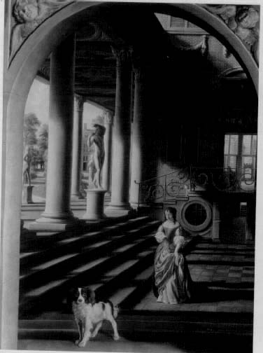 Anne Conway, Viscountess Conway (1631-1679) and her dog